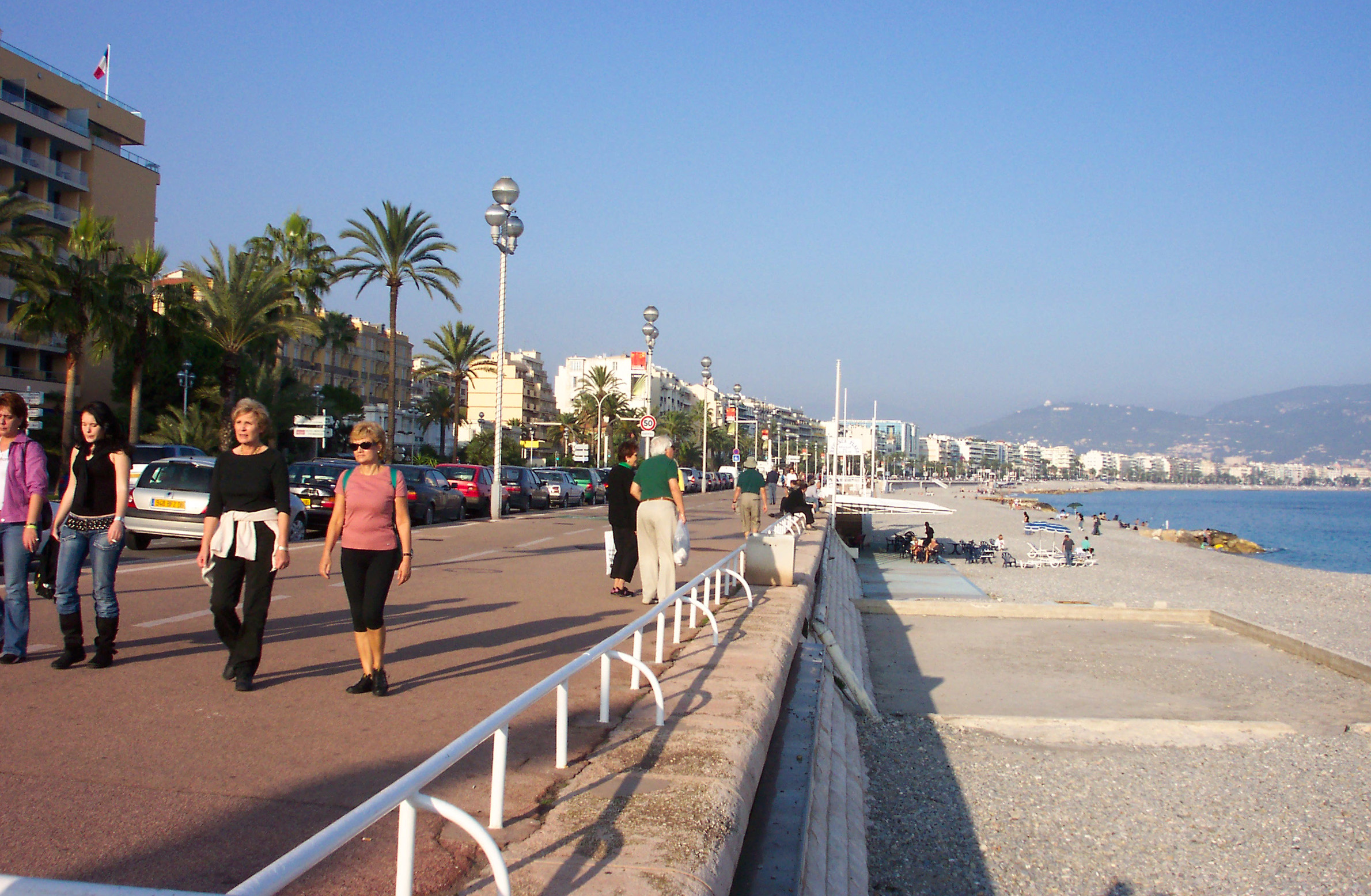 View of the English promenade in the french city Nice.